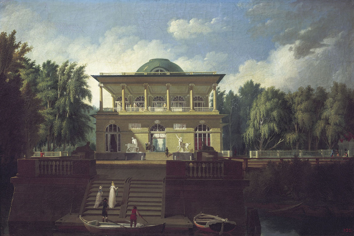 View of Stroganoff dacha in Petersburg